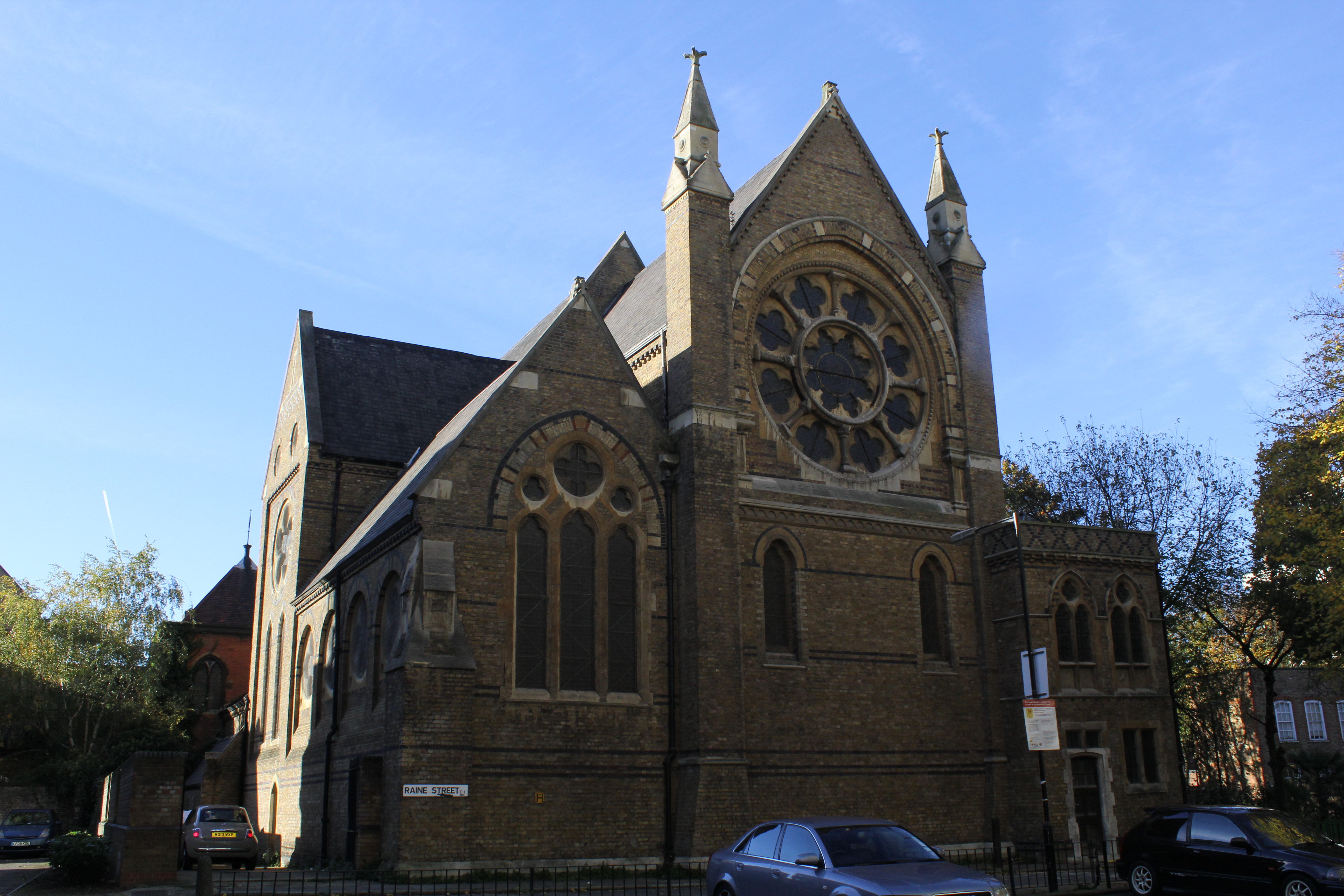 St Peter's London Docks